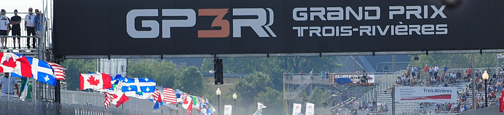 GP3R RaceStart